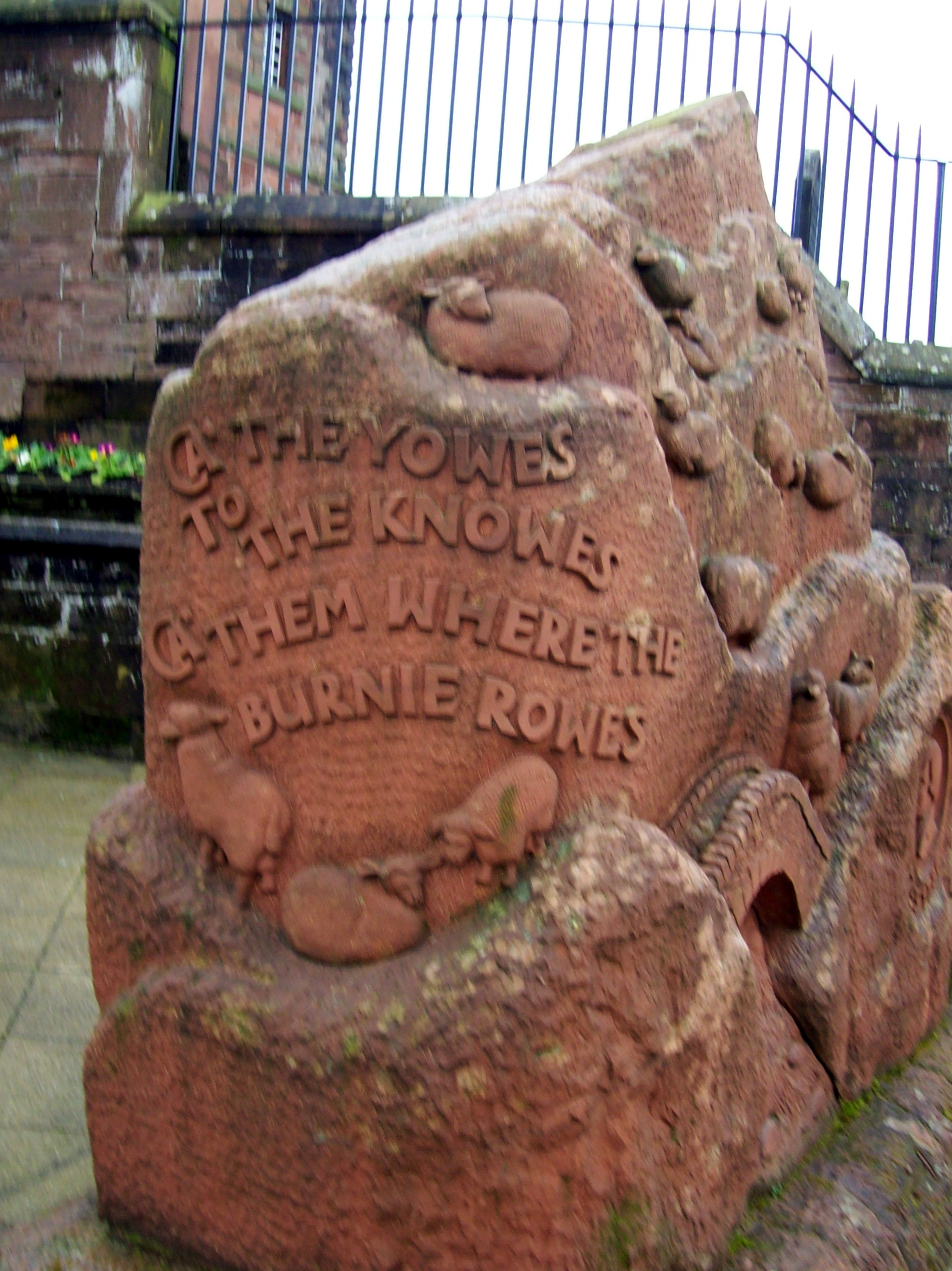 One of several of Robert Burns poems and songs referenced on this memorial stone on the pavement in front of the entrance to St Michael's church in Dumfries. The Robert Burns Mausoleum is located in the the churchyard, it has been spruced up recently and makes a positive contrast with this rather work-a-day memorial. A yowe is a sheep, Burns wrote his song in 1789. CAW THE YOWES Chorus.-Ca' the yowes to the knowes, Ca' them where the heather grows, Ca' them where the burnie rowes, My bonie dearie As I gaed down the water-side, There I met my shepherd lad: He row'd me sweetly in his plaid, And he ca'd me his dearie. Ca' the yowes, &c. Will ye gang down the water-side, And see the waves sae sweetly glide Beneath the hazels spreading wide, The moon it shines fu' clearly. Ca' the yowes, &c. Ye sall get gowns and ribbons meet, Cauf-leather shoon upon your feet, And in my arms ye'se lie and sleep, An' ye sall be my dearie. Ca' the yowes, &c. Robert Burns 1759 - 1796. If ye'll but stand to what ye've said, I'se gang wi' thee, my shepherd lad, And ye may row me in your plaid, And I sall be your dearie. Ca' the yowes, &c. While waters wimple to the sea, While day blinks in the lift sae hie, Till clay-cauld death sall blin' my e'e, Ye sall be my dearie. Ca' the yowes, &c.